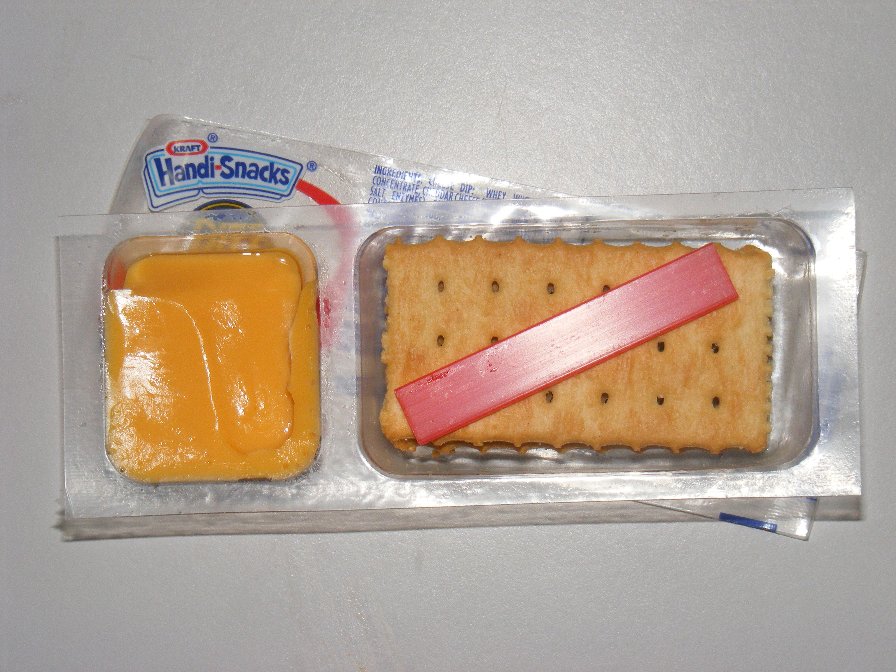 Ritz "Crackers'n Cheez" Handi-Snacks, open and awaiting consumption. The cheese dip is in the smaller compartment to the left and the crackers and spreading instrument are in the larger compartment to the right. The label has been removed from the plastic container to give a better view of contents and to reduce possible conflicting copyright problems. Photo was taken in normal macro mode.